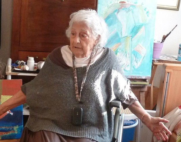 Teresa Rebull, 17 January 2015, with the last picture that se painted.